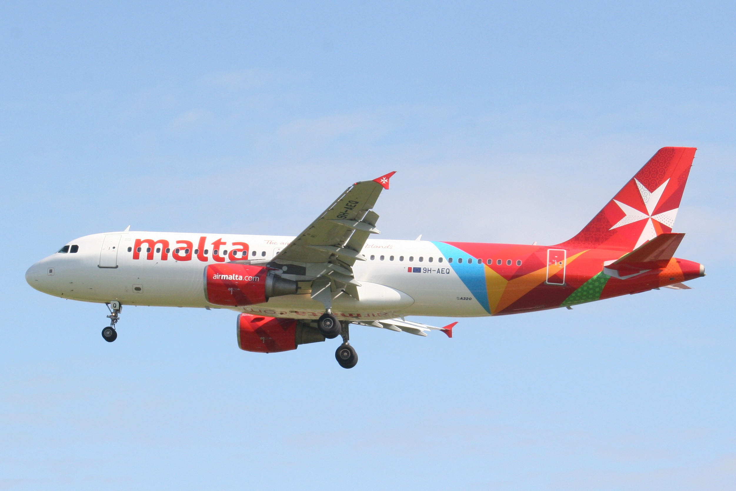 9H-AEQ Airbus A320 Air Malta landing on 027L.